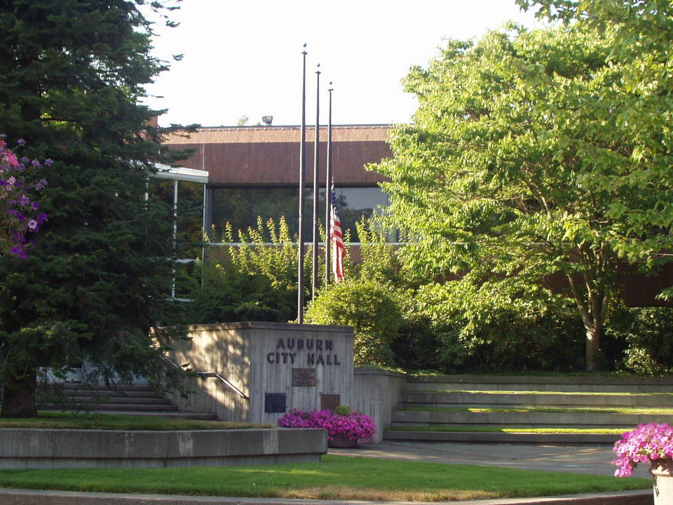 City Hall in Auburn, Washington